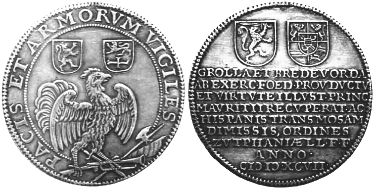 Conquest of Bredevoort en Groenlo by prince Maurice of Orange in 1597, publiced by the County of Zutphen. In the frontside COA's of County of Zutphen (lion) and Zutphen city (lion and anchorcross) text "Guardians of peace and weapons" On the flipside of the coin COA of the Netherlands (Lion with sword)) and Maurice of Orange. Text: Groenlo and Bredevoort are conquered back by the army of the seven provinces under leadership with heroism of manhood by the honourble prince Maurice and drive away the Spanish over the river Meuse. The lords of Zutphen printed this coin anno 1597.